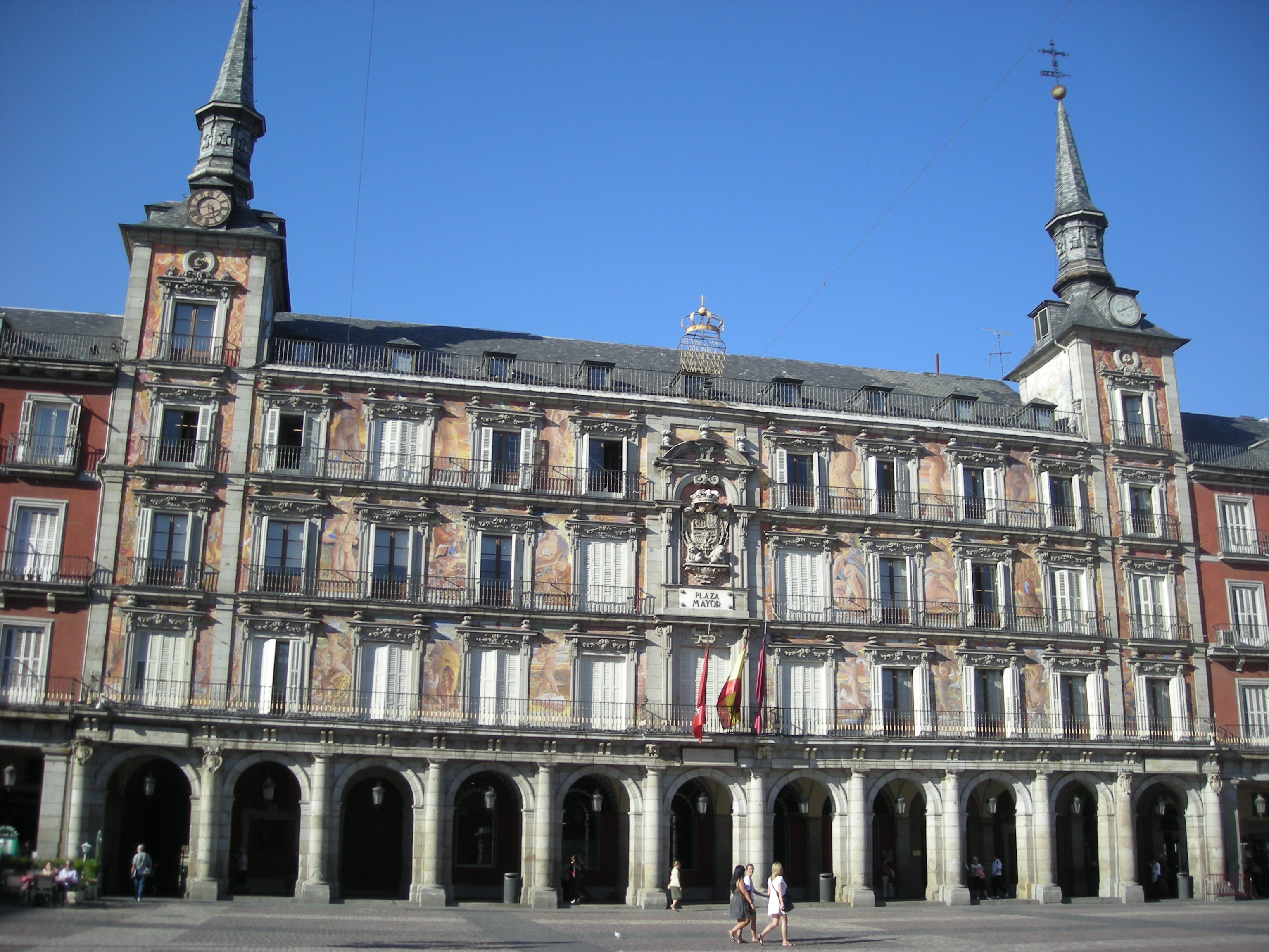 Casa de la Panadería (building), at the Plaza Mayor (square) in Madrid. At the left, monument to king Philip III of Spain.